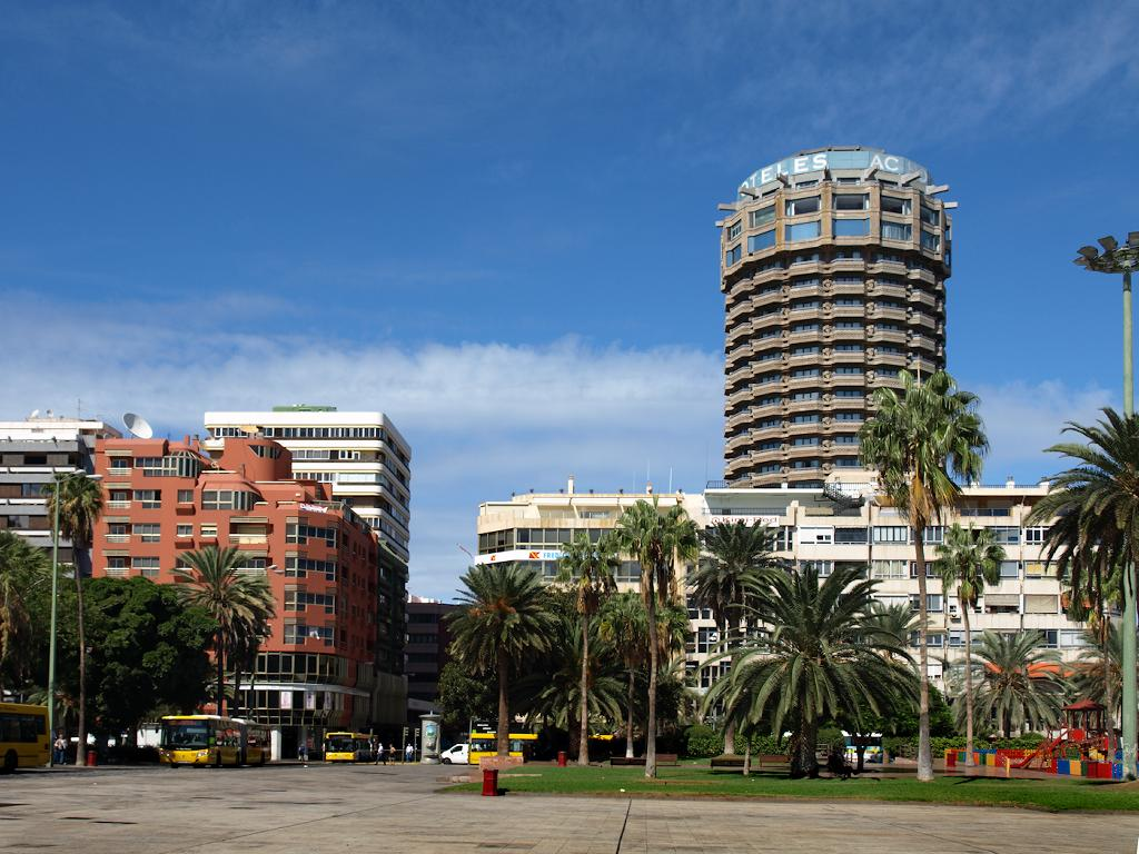 Las Palmas de Gran Canaria ,Plaza Santa Catalina, photo 2009